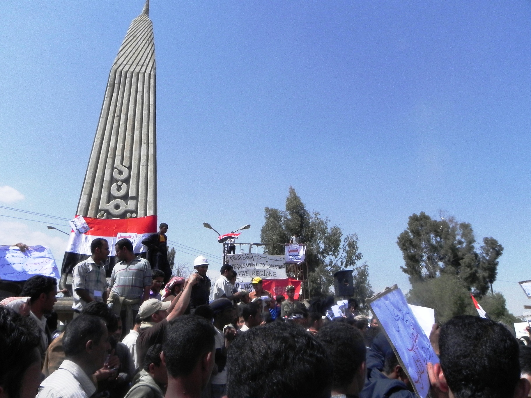 Some of the Yemeni peaceful protests requesting against the current party and calling the president to resign.